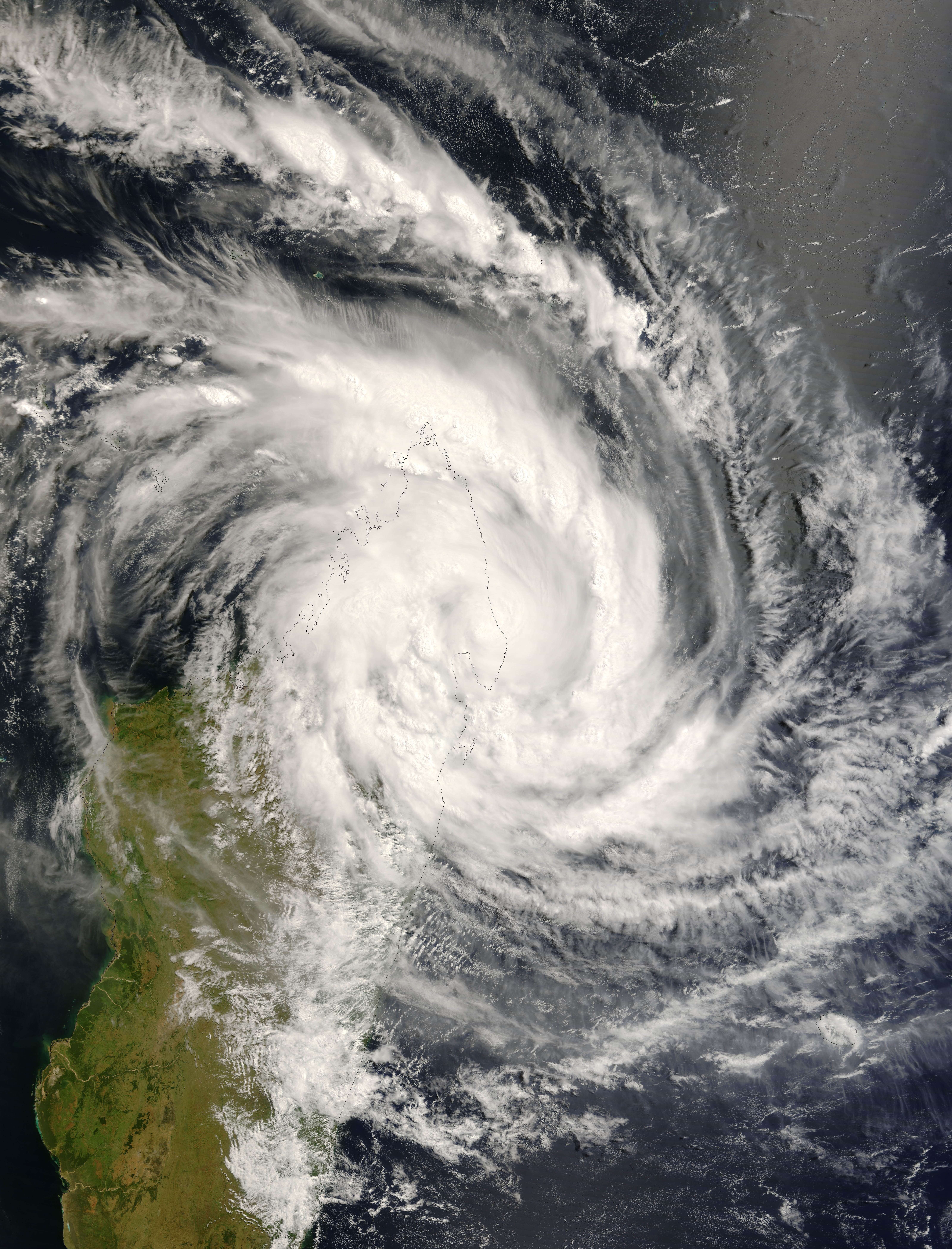 Cyclone Indlala came ashore on the island of Madagascar on March 15, 2007, as a Category 3 storm, according to data provided by the Joint Typhoon Warning Center. The storm was the country’s sixth hit of the 2006-2007 storm season. This image from the Moderate Resolution Imaging Spectroradiometer (MODIS) on NASA’s Terra satellite shows Indlala draped over the northern part of the island. Bands of swirling clouds spiral around the eye of the storm. According to Reuters AlertNet news service, Madagascar’s emergency response resources were taxed to their limit in early March 2007 as a result of extensive flooding in the North, drought and food shortages in the South, and three previous hits from cyclones in the preceding few months: Bondo in December 2006, Clovis in January 2007, and Gamede in February. The arrival of Indlala interrupted emergency relief efforts and worsened an already difficult situation.